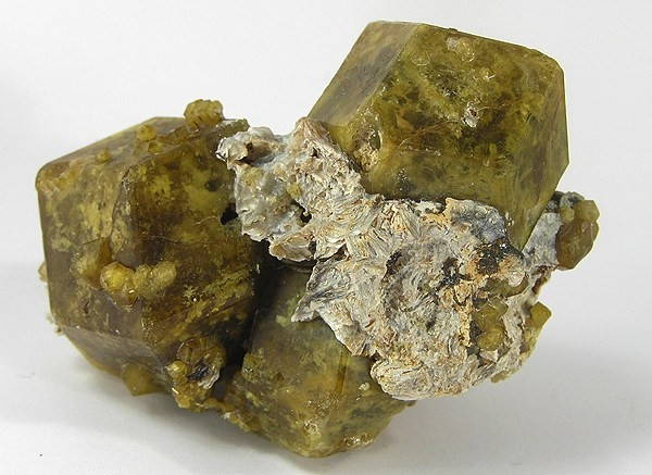 Grossular Locality: Sibinndi, Nioro du Sahel Circle, Kayes Region, Mali (Locality at ) Size: 4.9 x 3.4 x 2.9 cm. From the exciting recent find in Mali, this specimen represents the very TOP- with rare MATRIX association, and high luster on the large crystals. From a knowledgeable collector: “Ugrandites are a rare intermediate between andradite and grossular. In other words, Mali Garnet. This series leans toward the andradite end, in my opinion. What seems to be unique is the very strong presence of chromium. I’m surprised that the body color isn’t more green. I imagine that is due to the presence of color killing iron. I thought this might interest you.” Well, that is more than what we knew – we had heard that they were under study to see if they were demantoid var. topazolite garnet. Anyway, an exceptional specimen from this find. The crystals measure to 2.2 cm across - and again, matrix specimens are exceedingly rare.